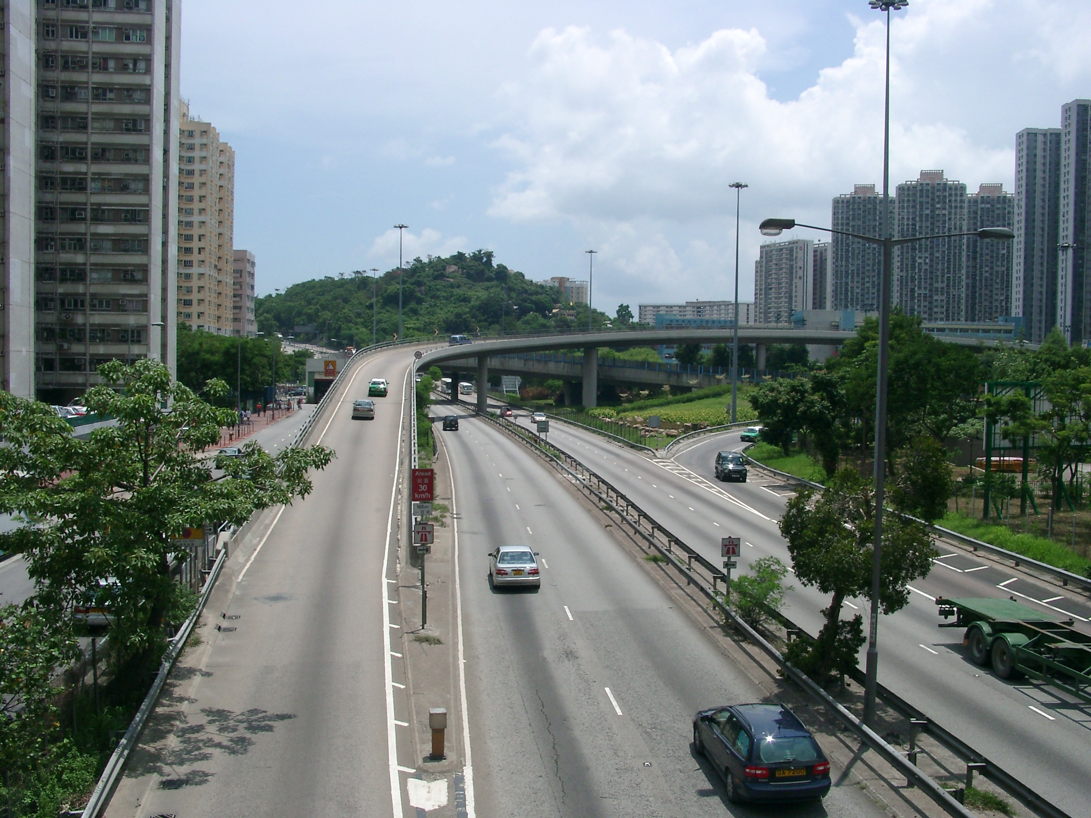 Junction of Tuen Mun Road and Wong Chu Road in Tuen Mun, Hong Kong. The roads on the from the left to the right are: Tsing Hoi Circuit (not directly connected to Tuen Mun Road) Slip road from Tuen Mun Road southbound to Wong Chu Road westbound Tuen Mun Road southbound Tuen Mun Road northbound Slip road from Wong Chu Road eastbound to Tuen Mun Road northbound